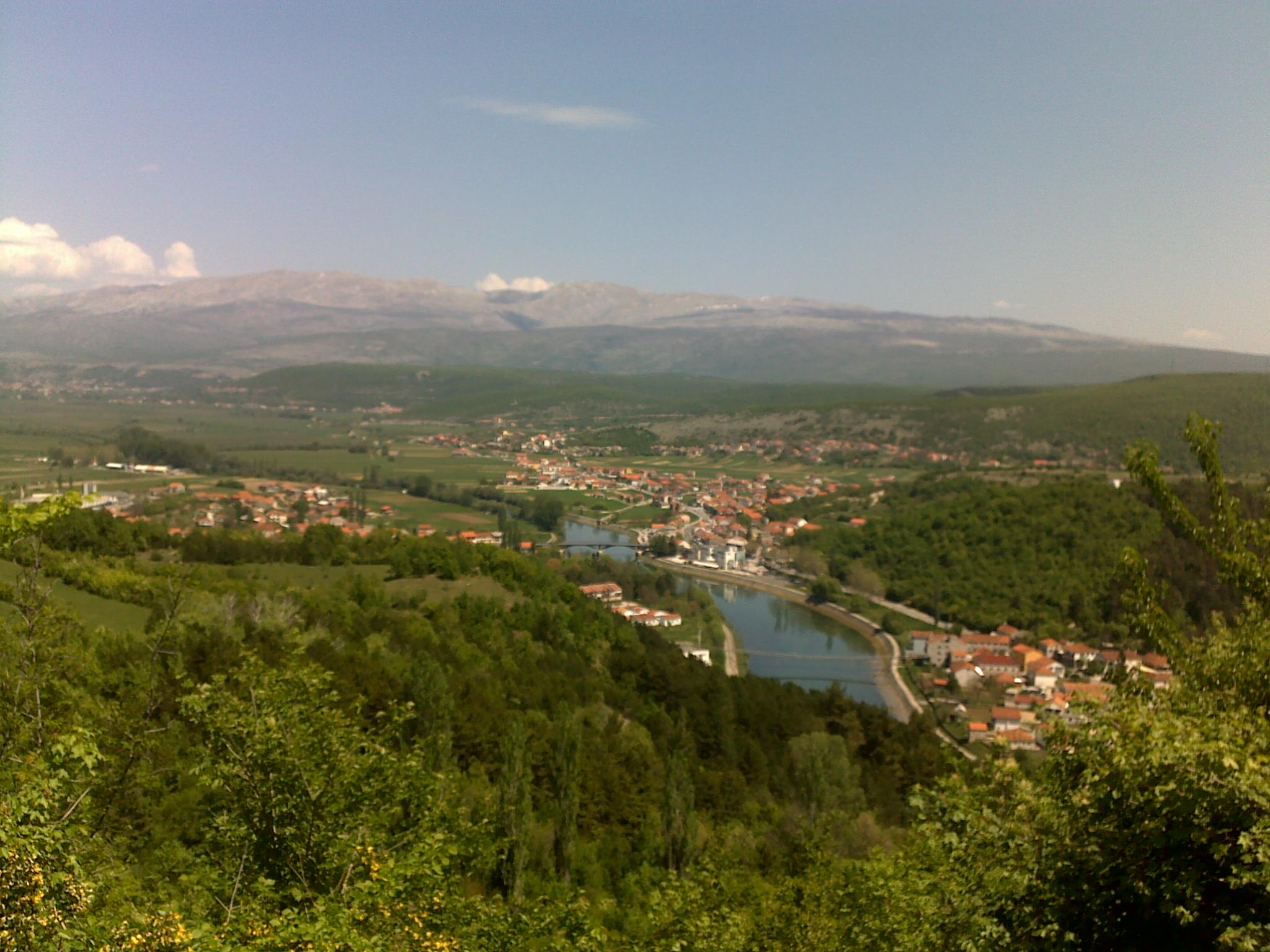 Picture of town Trilj from the Gardun hill